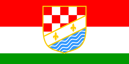 Flag of Bosanska Posavina